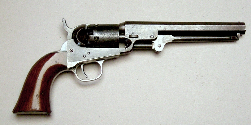 Colt 1849 Pocket Model 6 inch barrel